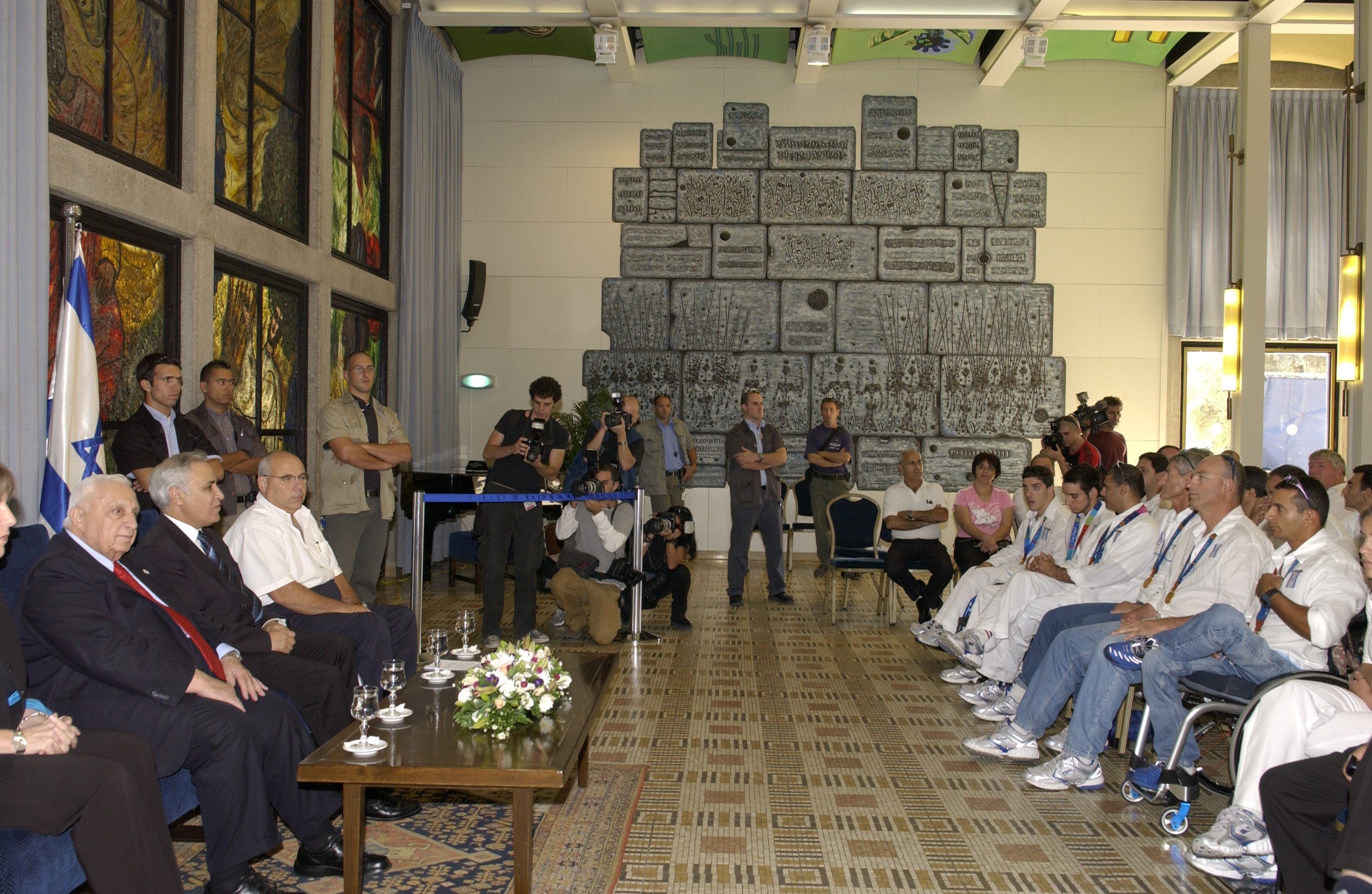 A reception is held for Israel’s athletes who returned from the Athens 2004 Paralympic Games, with the athletes joined by Prime Minister Ariel Sharon and President Moshe Katsav at the President's Residence in Jerusalem. קבלת הפנים שנערכה עבור הספורטאים שחזרו מאולימפיאדת אתונה 2004 בבית הנשיא בירושלים. Photo: OHAYON AVI, 05/09/2004.